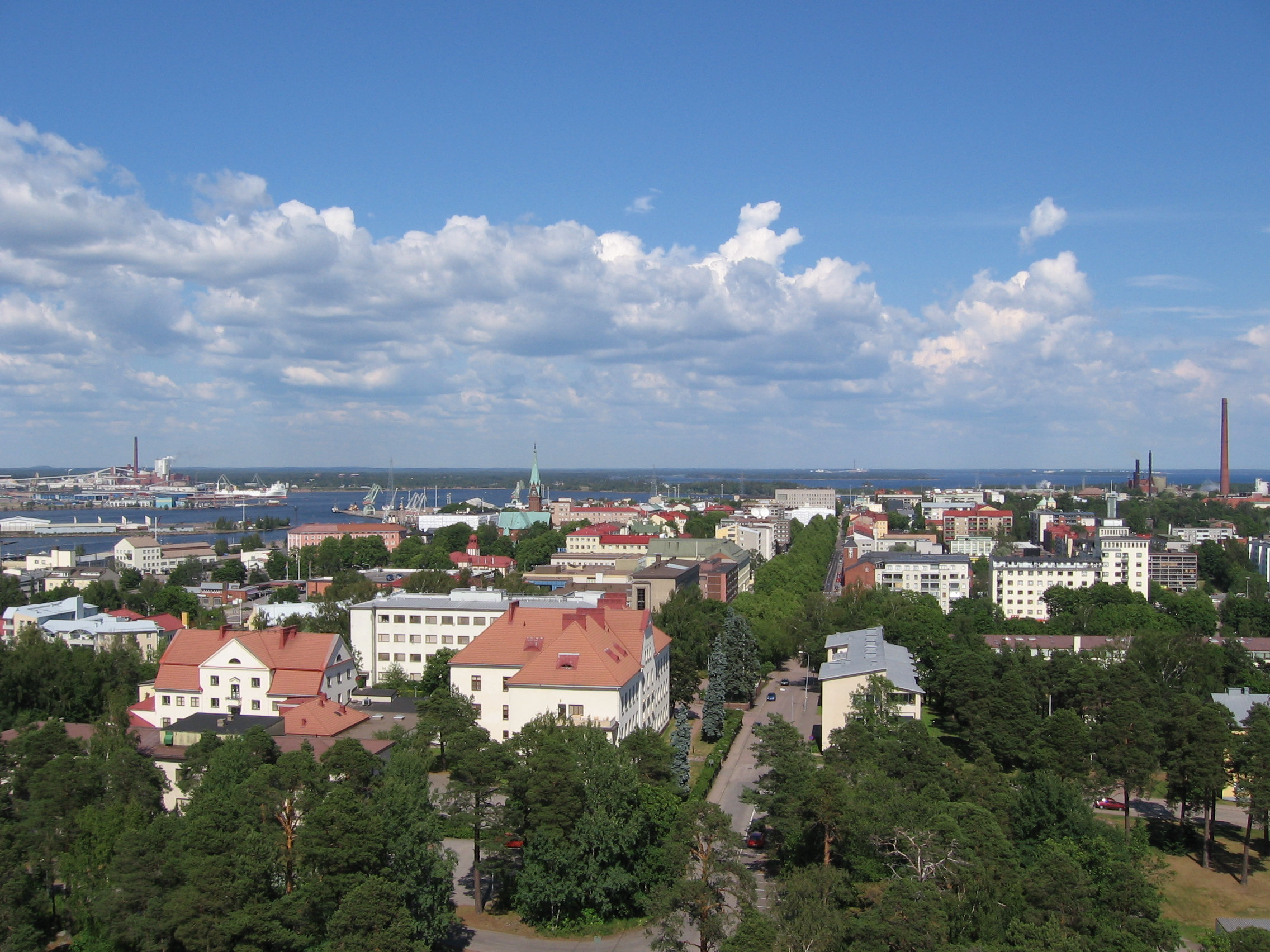 Kotkansaari, the centre of Kotka, Finland